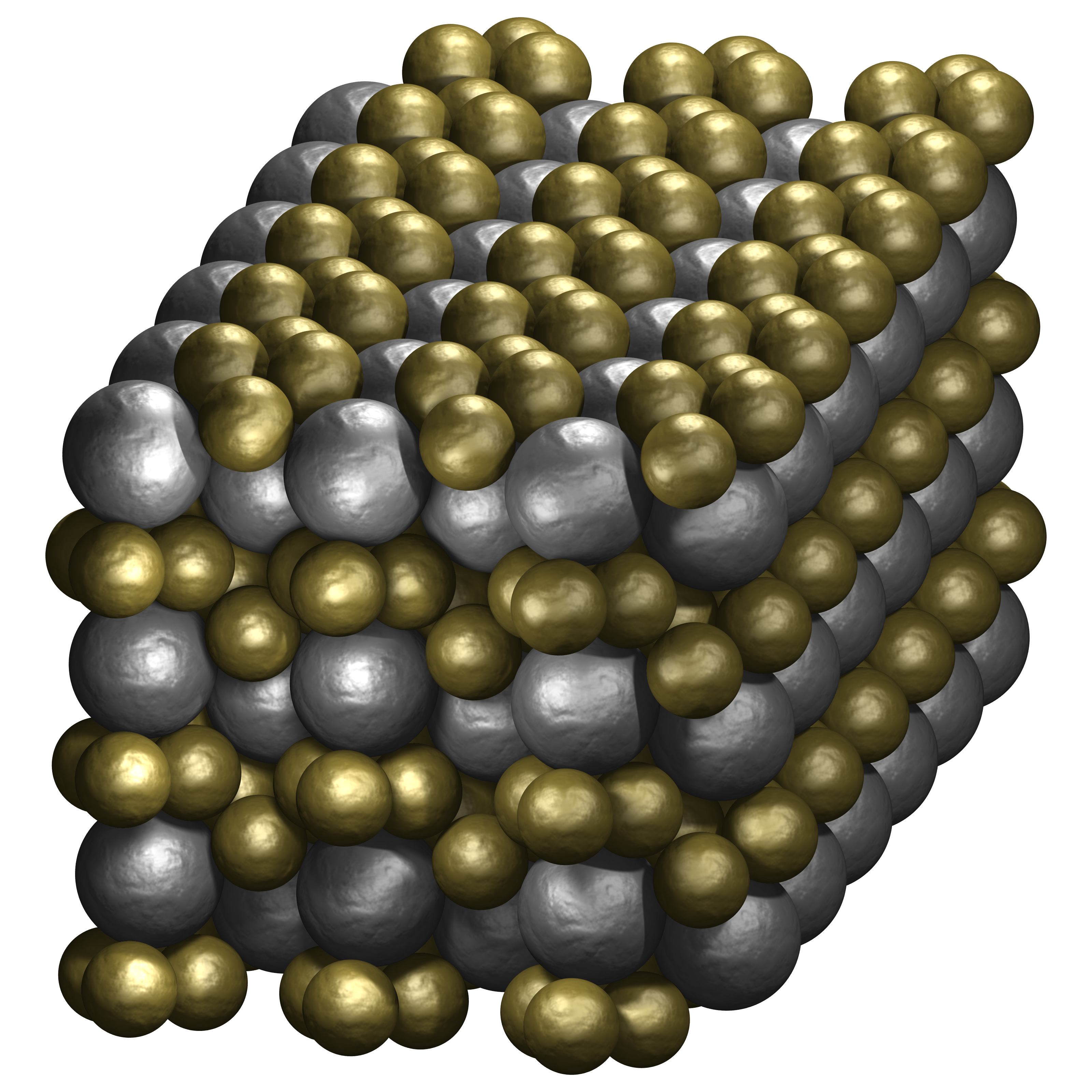 A binary sphere packing where the small spheres have a radius of 0.647989 and the large spheres a radius of 1. There are 3 Small spheres per Large sphere. This structure achieves a total packing density of 0.747857. Details of the structure were published here.